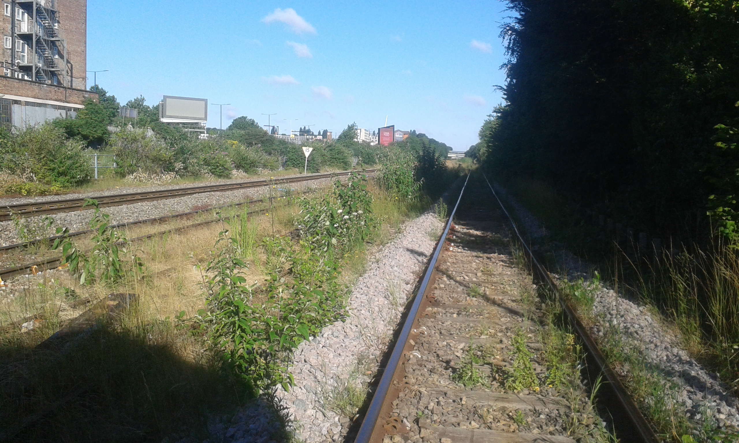 Former Guinness Brewery sidings at Park Royal on 14th July 2016. The sidings are now used to supply aggregate material to Lagarde Tarmac.